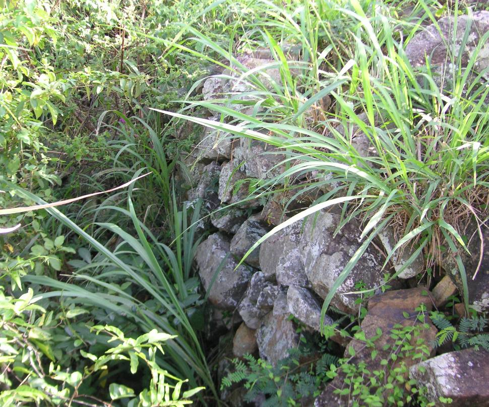 Photograph of part of the remains of Fort Charlotte, Tortola, British Virgin Islands (December 2006)